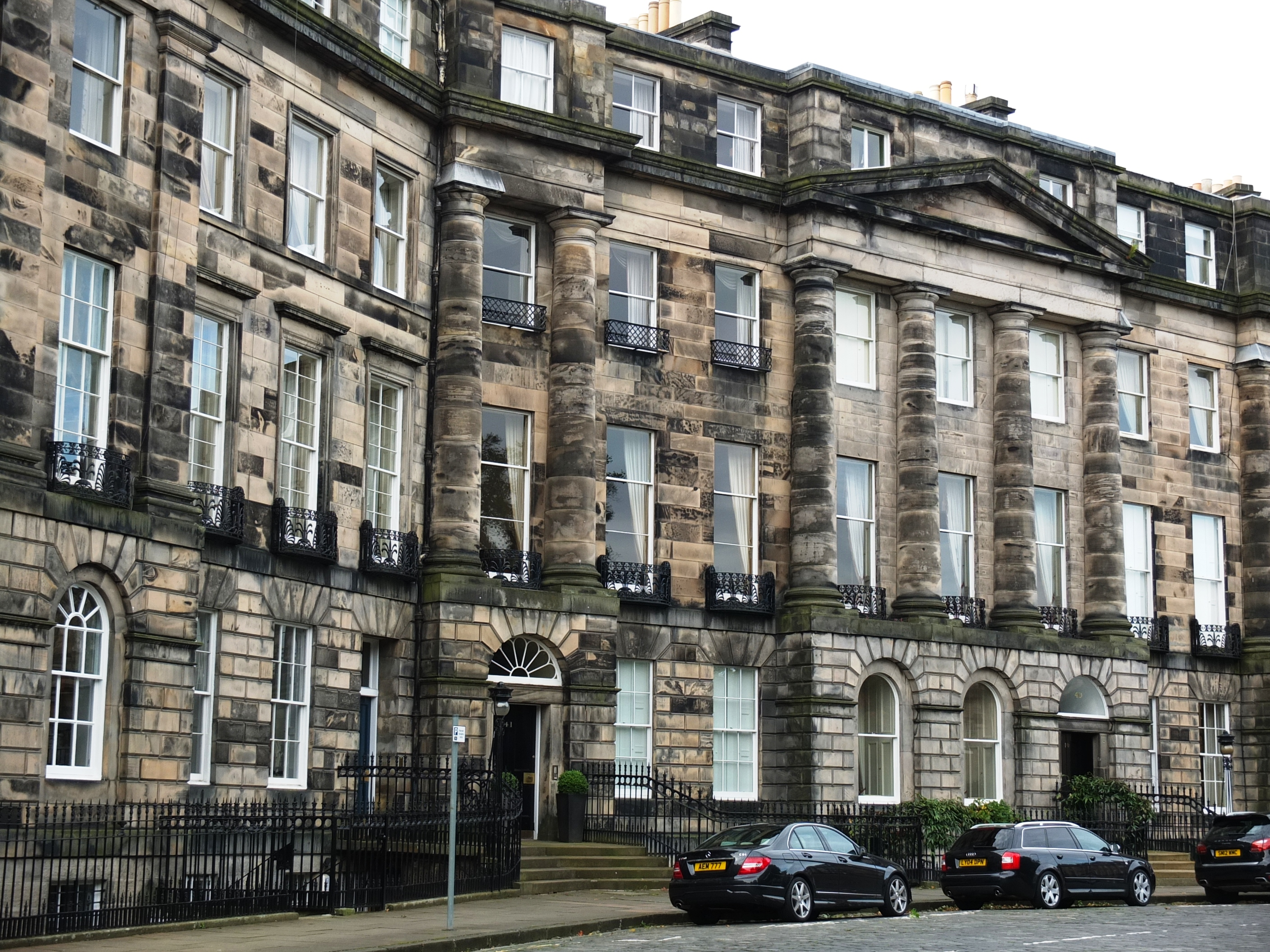 37-43 Moray Place